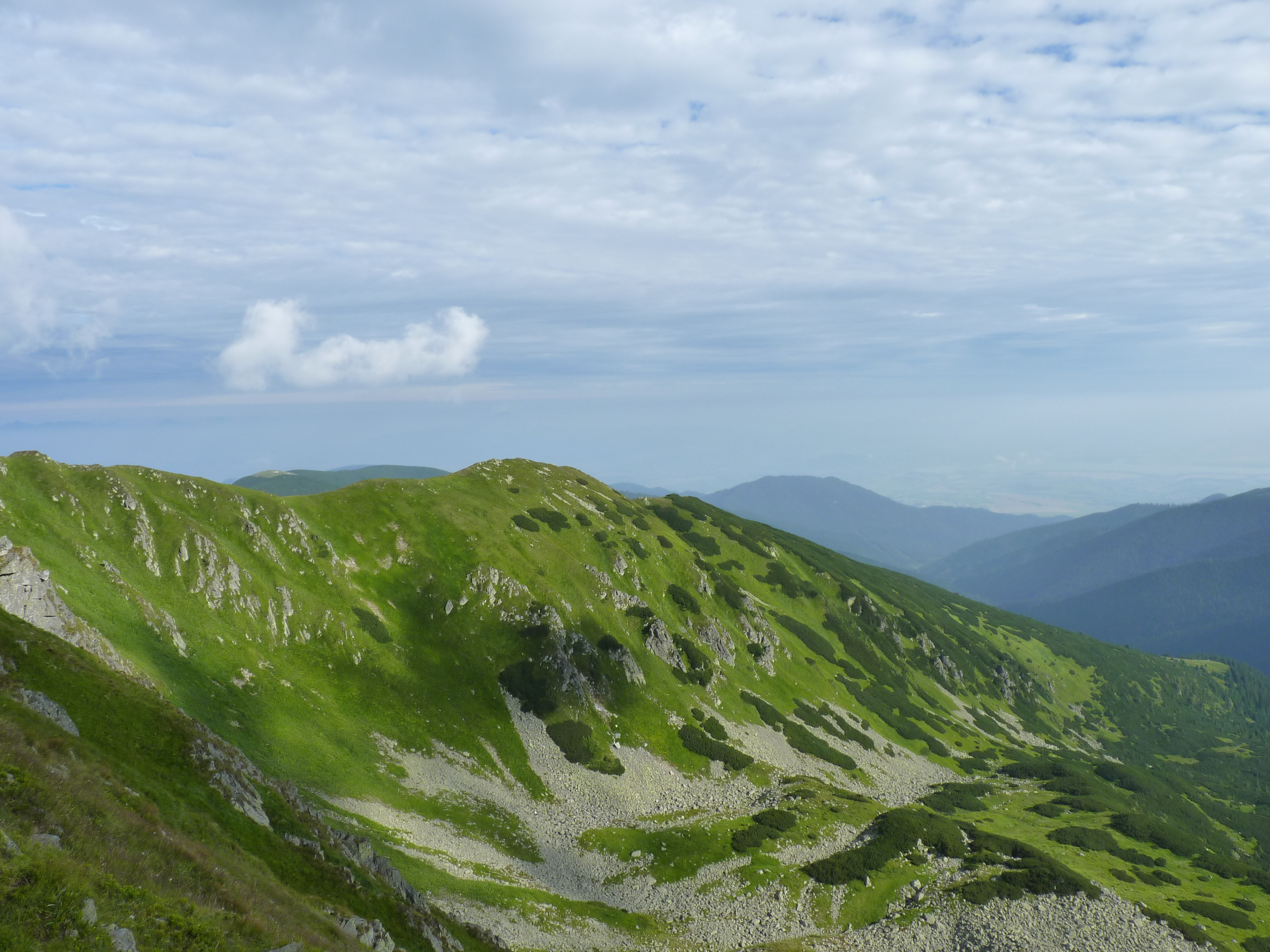 Žiarska hoľa. Low Tatras, Slovakia